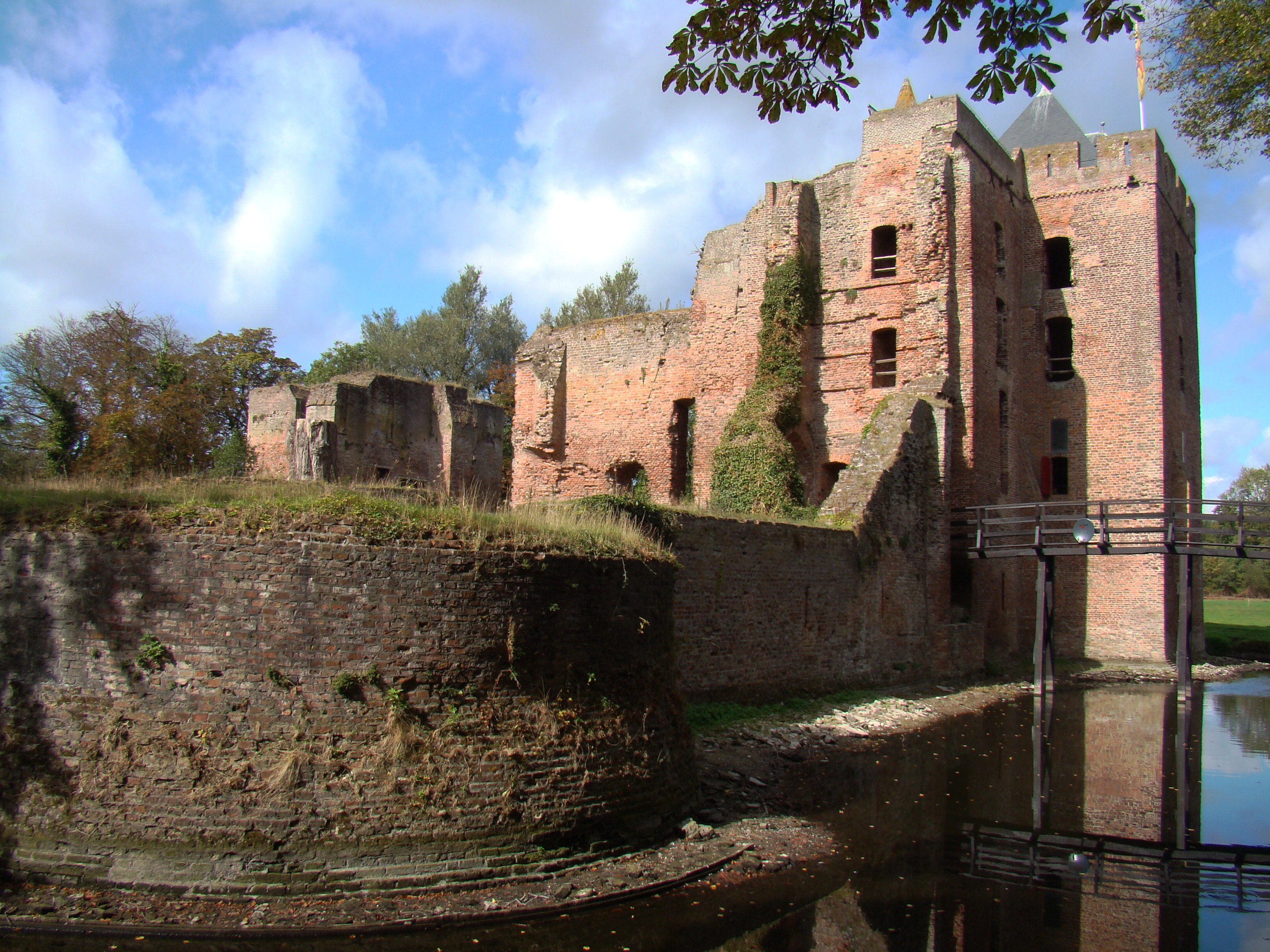 Ruines of castle Bredrode at Santpoort (Netherlands)